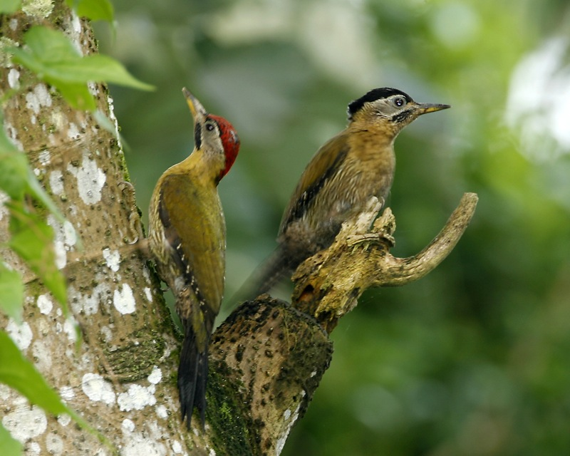 A pair of Laced Woodpecker (Picus vittatus vittatus) photographed in Simpang, Singapore. Female looking to right.